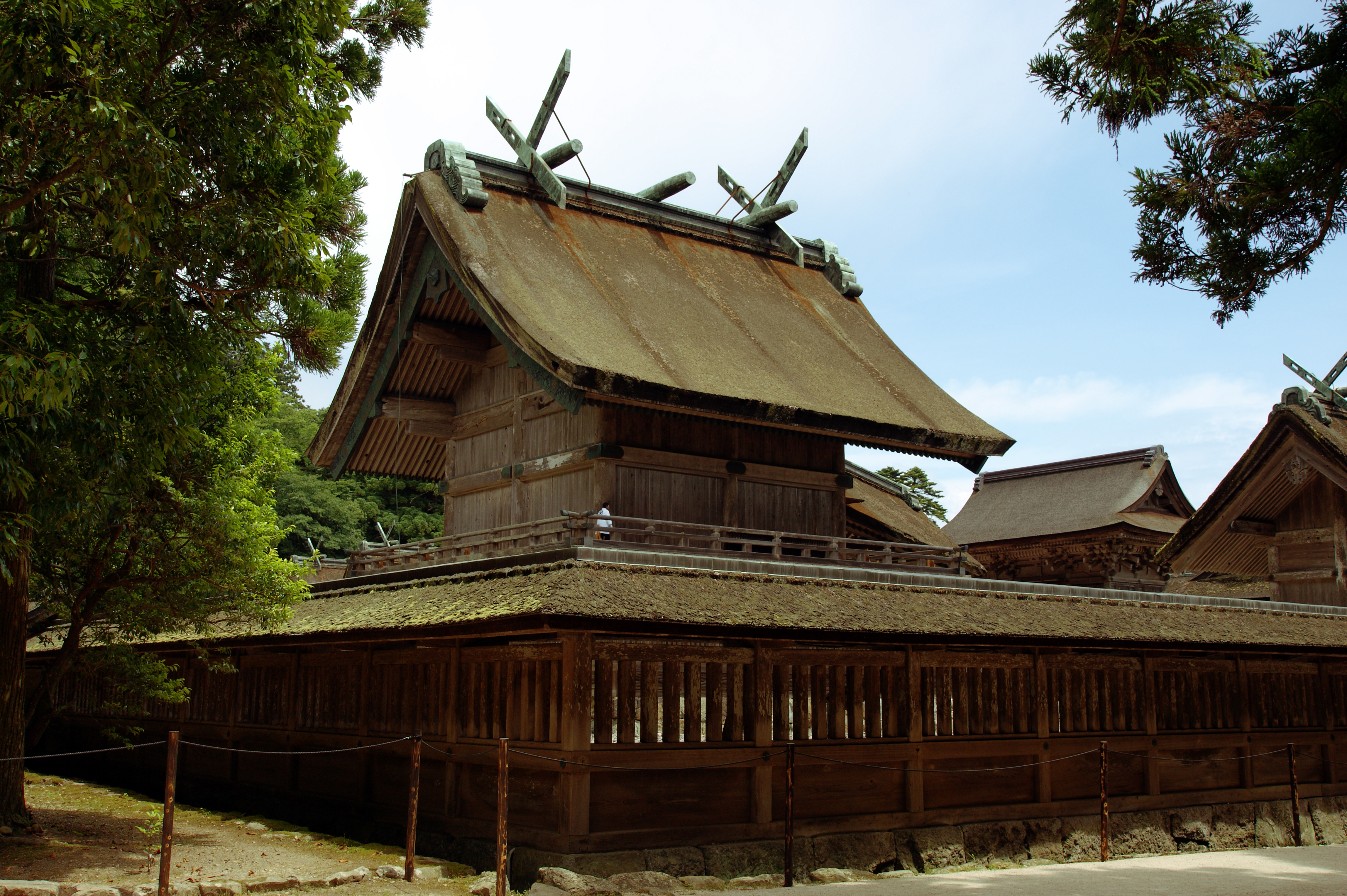 Izumo Taisya, Izumo, Shimane prefecture, Japan